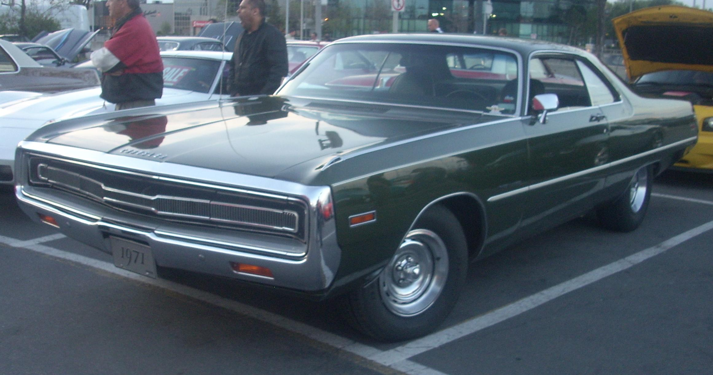 1971 Chrysler 300 photographed in Montreal, Quebec, Canada at Gibeau Orange Julep.